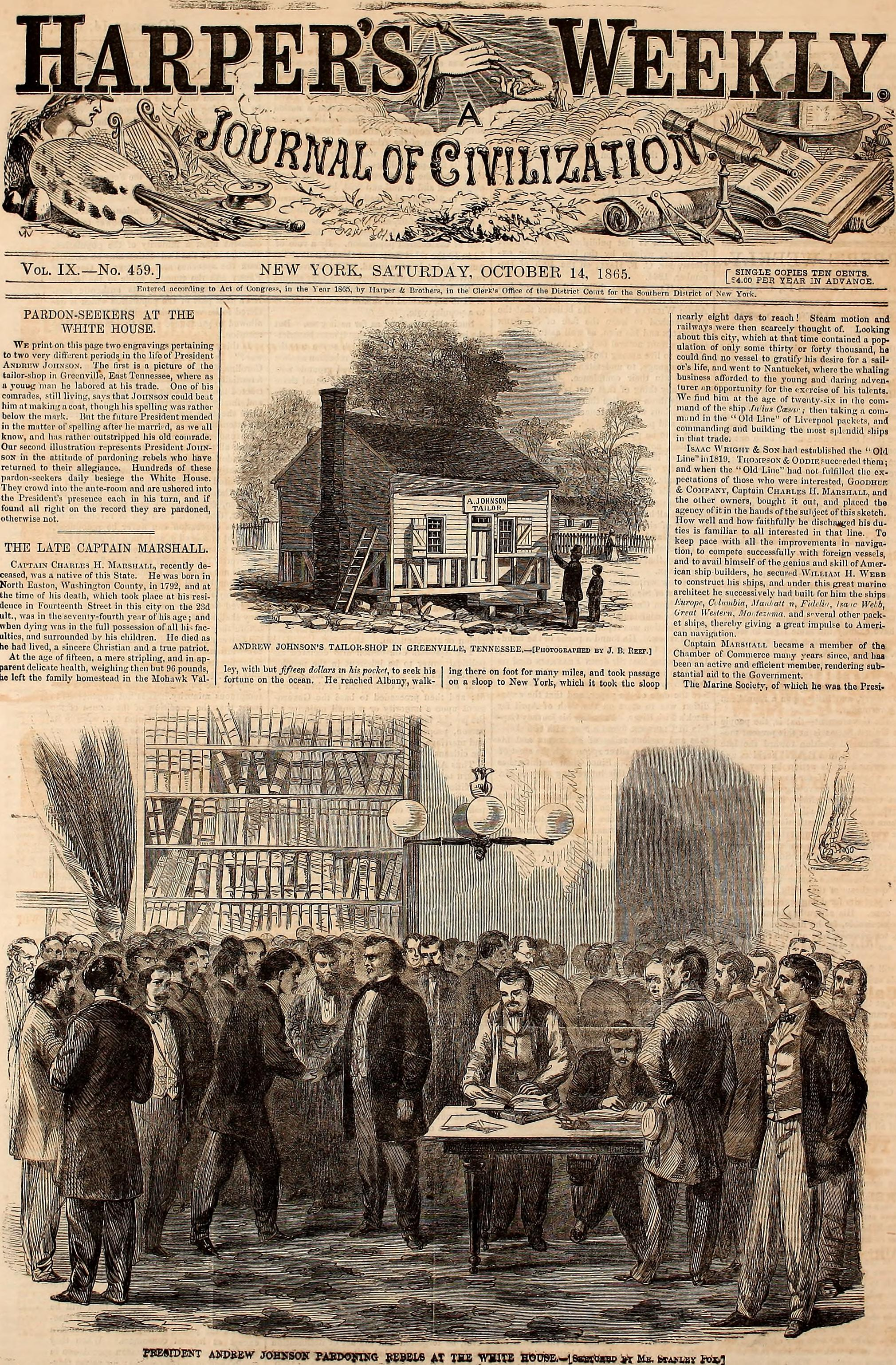 Title: Harper's weekly Year: 1857 (1850s) Authors: Bonner, John, 1828-1899 Curtis, George William, 1824-1892 Alden, Henry Mills, 1836-1919 Conant, Samuel Stillman, 1831-1885? Schuyler, Montgomery, 1843-1914 Foord, John, 1842-1922 Davis, Richard Harding, 1864-1916 Schurz, Carl, 1829-1906 Nelson, Henry Loomis, 1846-1908 Bangs, John Kendrick, 1862-1922 Harvey, George Brinton McClellan, 1864-1928 Hapgood, Norman, 1868-1937 Subjects: Publisher: New York : Harper & Brothers Text Appearing Before Image: PATENT EXPANDED STAR COLLAR AdolpheFlamaht&c?CHAMPAGNE. HULLS Vegetable Sicilian Hair Renewer Try Wards India-Rubber EnameledPAPER COLLARS & CUFFS, PAPER COLLARS & CUI WOODWARDS NEW PATENT SELF-ADJUSTING /-C0AL-0IL LANTERN \. VINELAND LANDS. ^J$l*«*#m» GREAT CHANCE FOR AGENTS, B& Text Appearing After Image: »t Ms. tfcuiunr i**J ■ (..nini.i •■ HARPERS WEEKLY. (October 14,1865. as the loyal States are. It is possible, of course,that the President mny differ with Congress and expects the conventions to say that the nirTi nuiv tairlv be expected to net InnThey will not shirk nor evade. If the rebell- 1 thenoroblo roseirablv. Cot reserved her right to nullify as she nowrves her right to secede. In the prefer otfered the opportunity of renouncing the